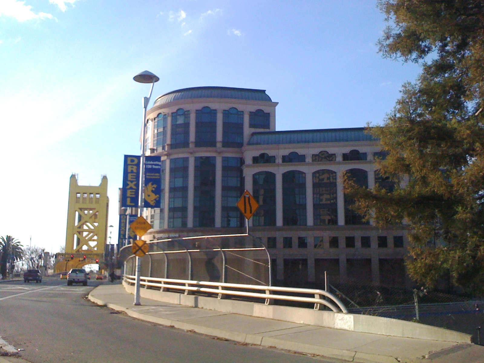 View from outside the Sacramento Center for Graduate Studies